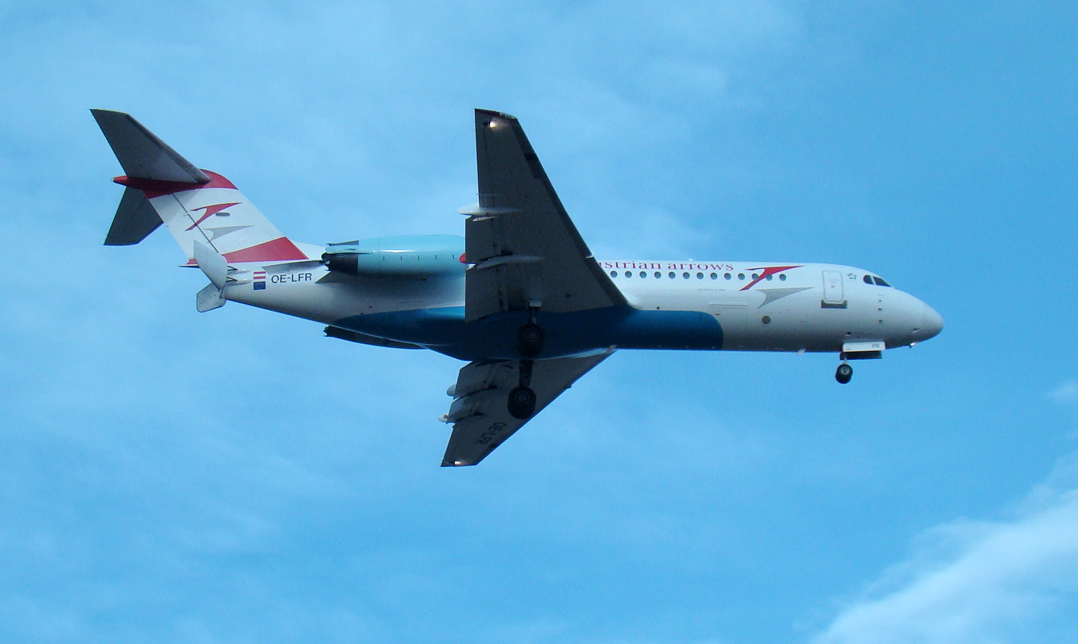 The Fokker F70 of Austrian Arrows landing at RW 11 in Vienna (04.02.2008).